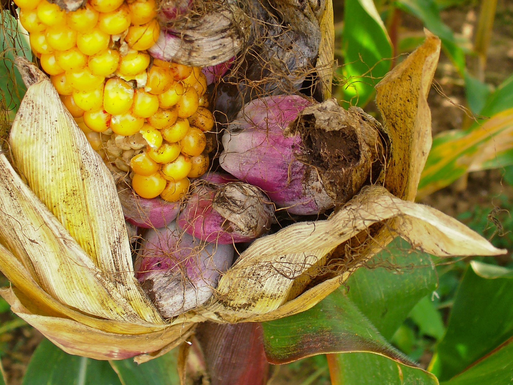 Ustilago maydis, Ustilaginaceae, Corn smut, galls. Karlsruhe, Germany.